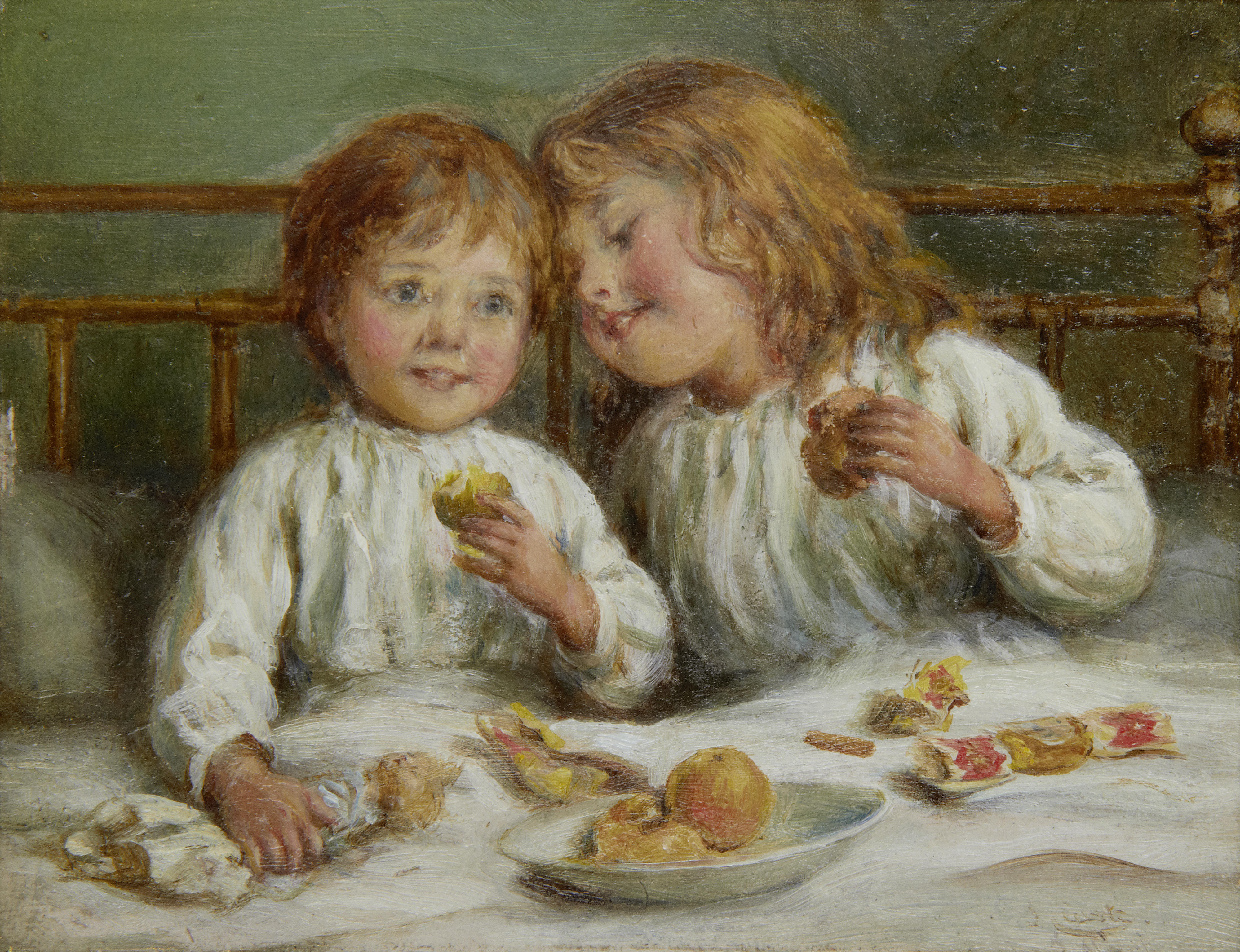 Christmas morning; signed 'J Clark' (lower right), oil on board 13 x 17 cm